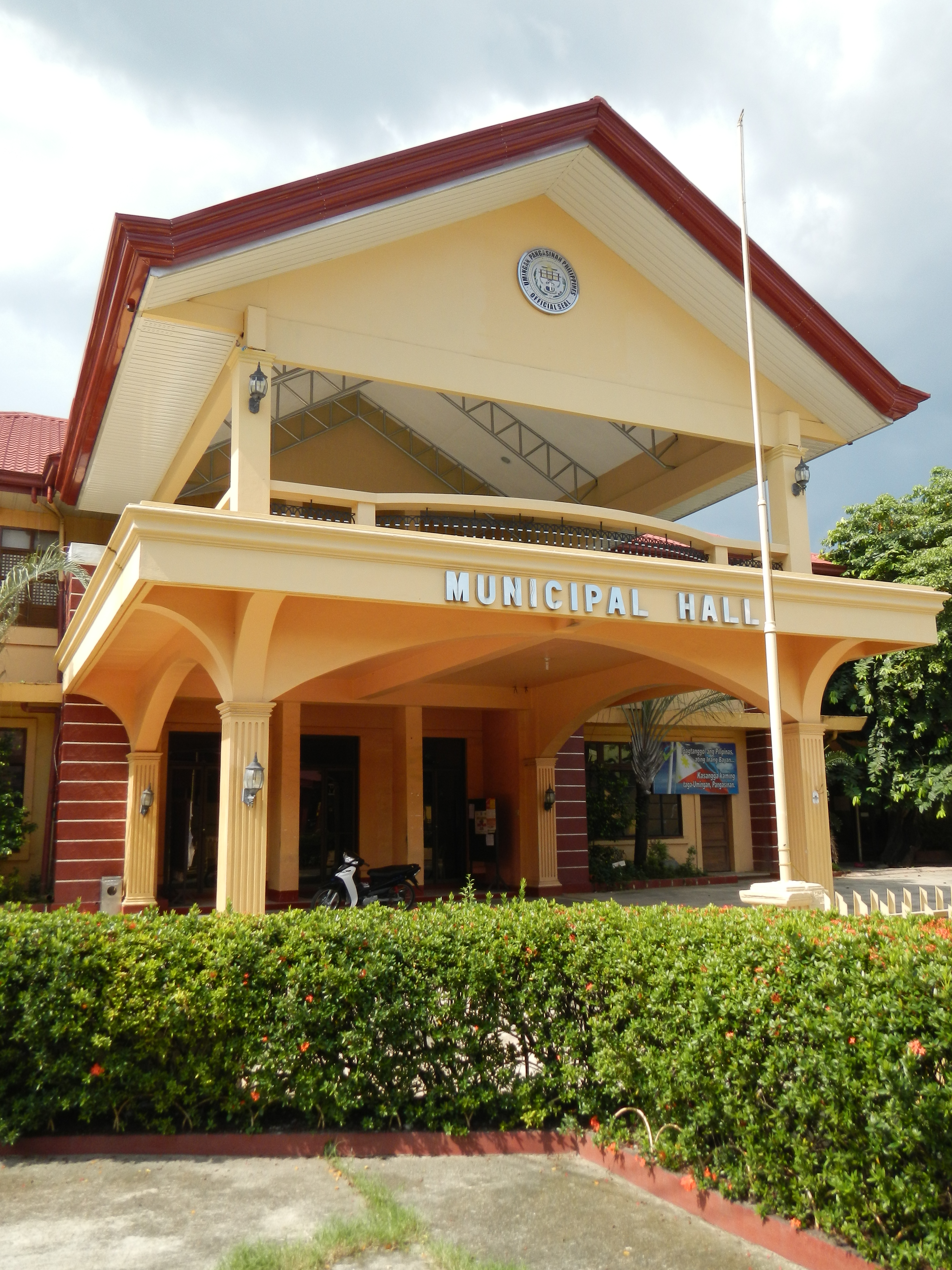 UploadWizard photos of Municipal Town Hall of Umingan, [1] Pangasinan - is a municipality in the province of Pangasinan[2], Philippines subdivided into 20 barangays -[3] Website [4] [5] Coordinates: 15°55'38"N 120°50'27"E [6] Town Plaza Coordinates: 15°55'35"N 120°50'27"E [7] Umingan Children's Park Coordinates: 15°55'34"N 120°50'28"E beside the Auditorium [8]